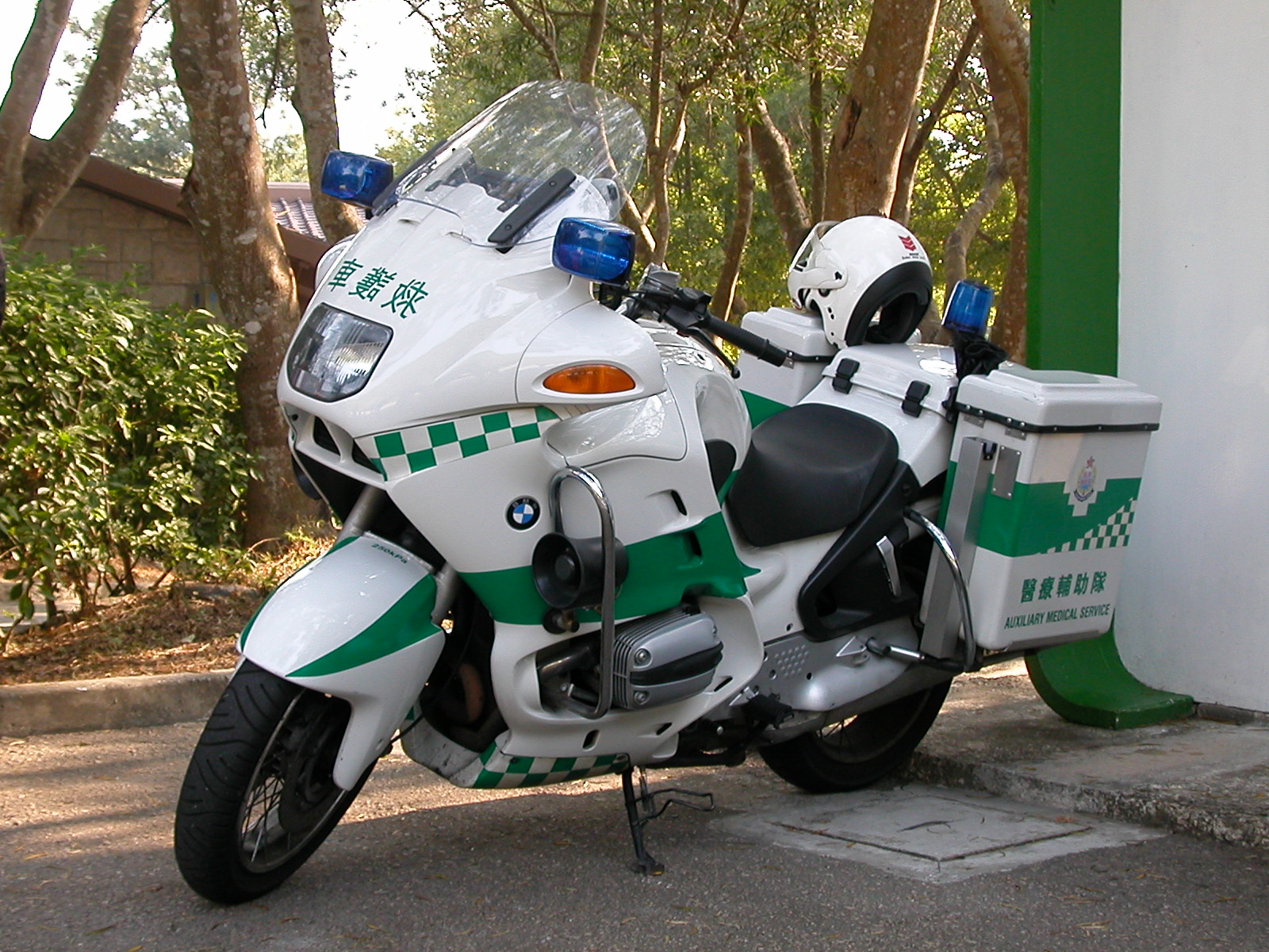 An ambulance motorcycle of Auxiliary Medical Service, Hong Kong Taken by Nxn 0405 chl on November 21 en:2004